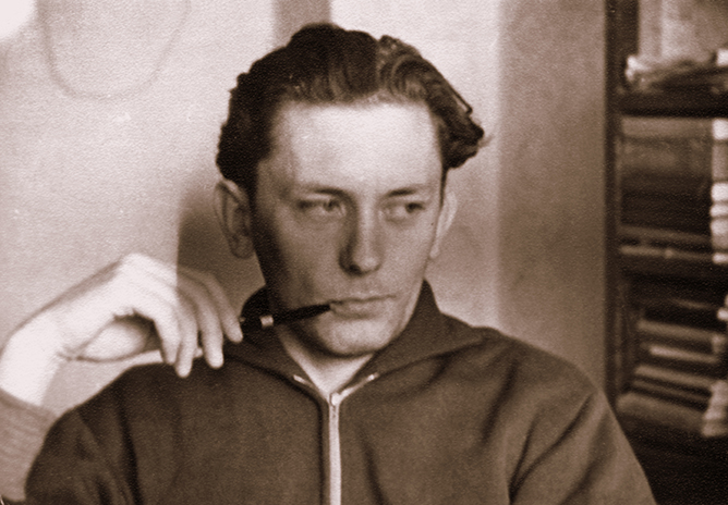 Edward Szpilewski, student, Moscow 1957